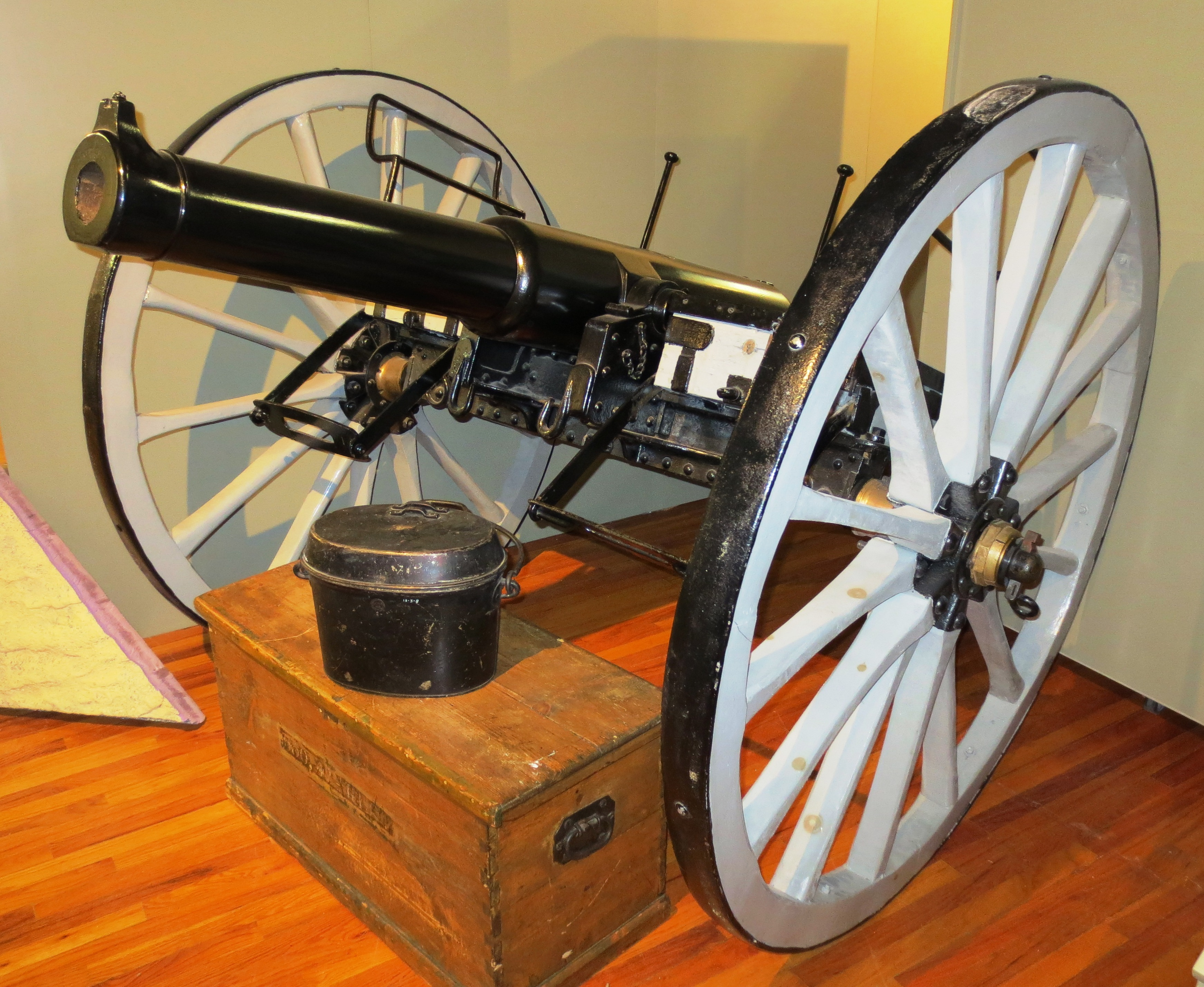 RML 9-pounder 8-cwt Field Gun, NBMHM, CFB Gagetown, New Brunswick. The Rifled Muzzle Loading (RML) 9-pounder 8-cwt Gun was developed by a British officer, William Palliser. With a range of 3,300 metres, this Gun threw a shell fitted with studs that held and slid along the grooves in the gun’s bore. At least 80 of these guns were purchased from the UK for Canada with the first of them arriving in 1873 and within the decade, they were being used extensively throughout the Regiment. The 9-pounder 8-cwt was the first Gun used by the Royal Regiment of Canadian Artillery in action. “A” Battery employed six of this type of gun at the battles of Fish Creek and Batoche in 1885 during the Riel Rebellion in the North West Campaign.